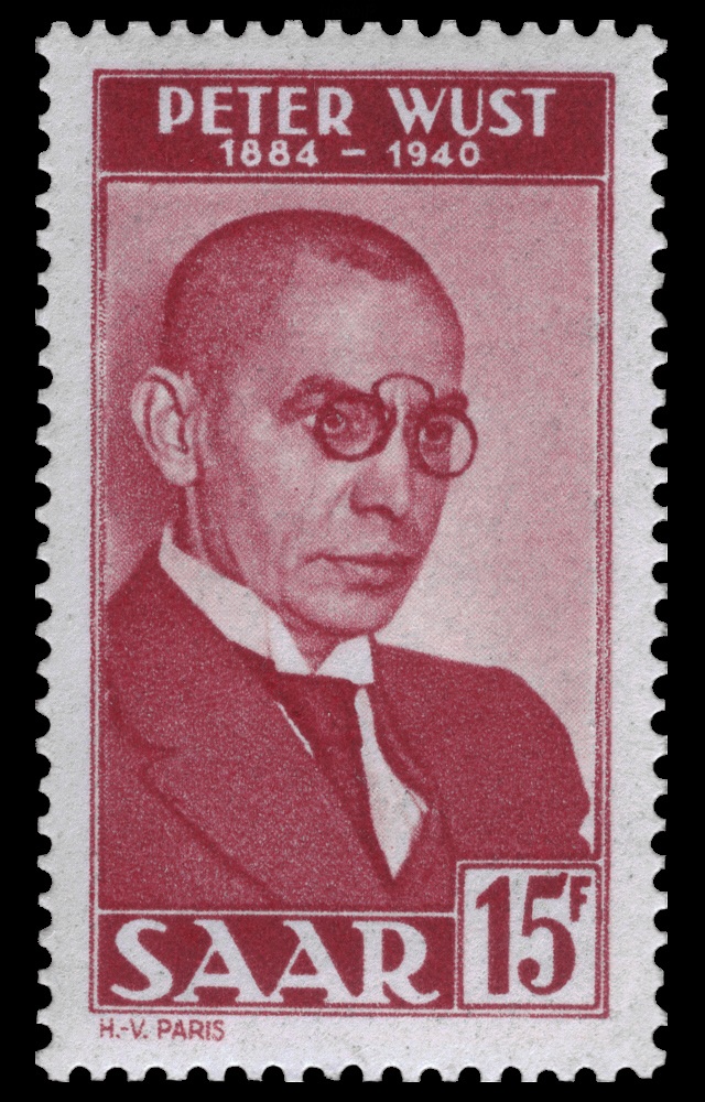 10th day of death of Peter Wust (1884—1840)